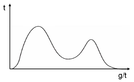 Bimodal distribution of an ore, y axis has the overall tonnage, x axis has the grade of ore.